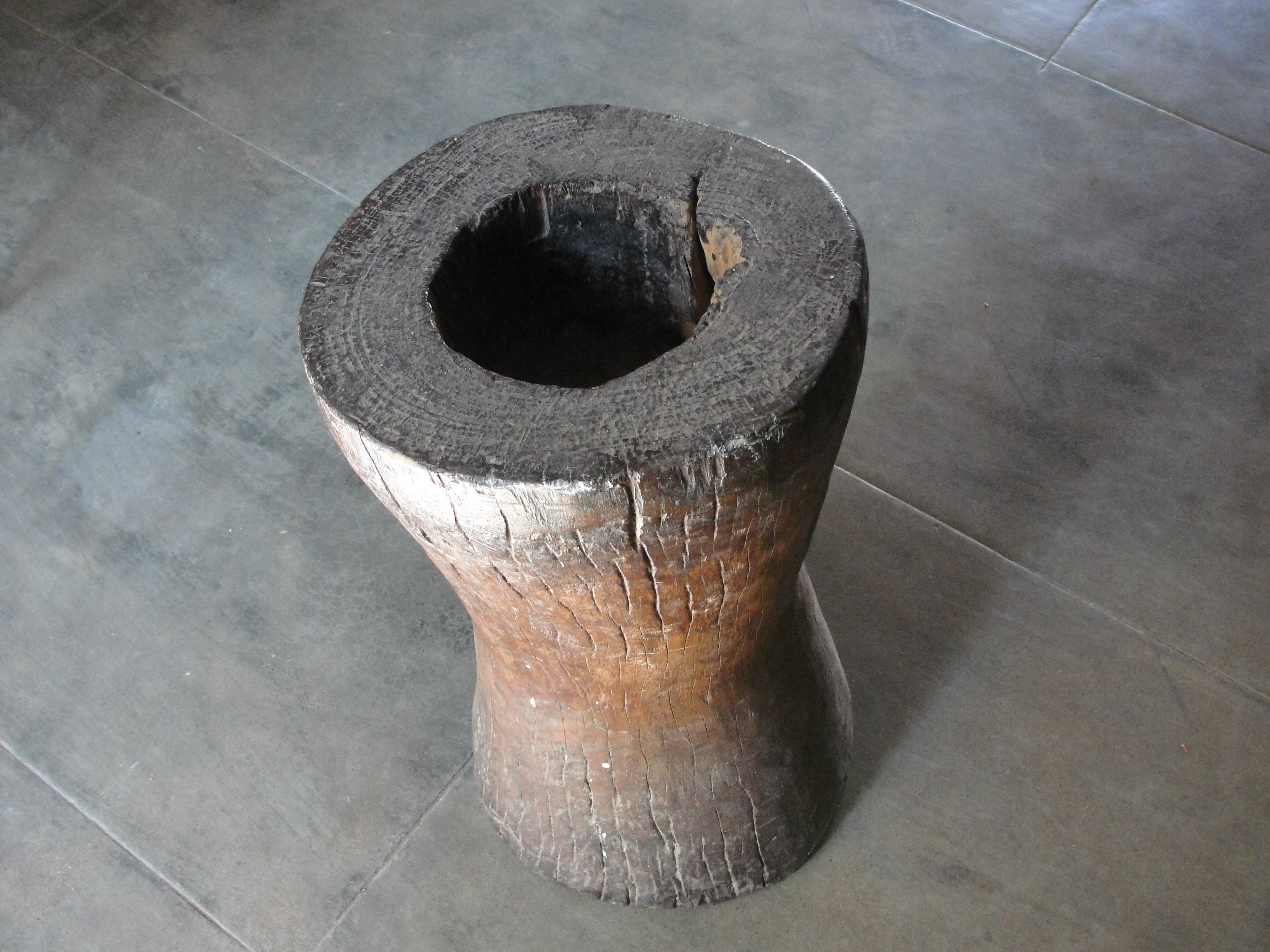 A depiction of traditional wooden mortar. An exhibit in Salem district exhibition, Tamil Nadu, India.